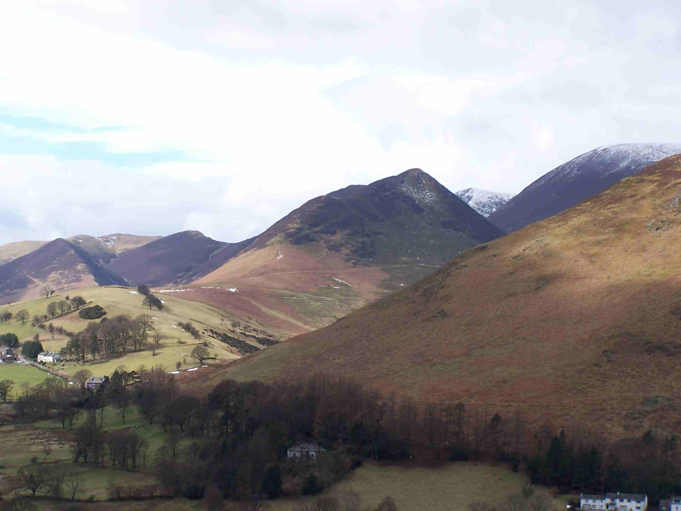 Personal photograph taken on March 20th 2006 by Mick Knapton 20:54, 26 March 2006 (UTC)